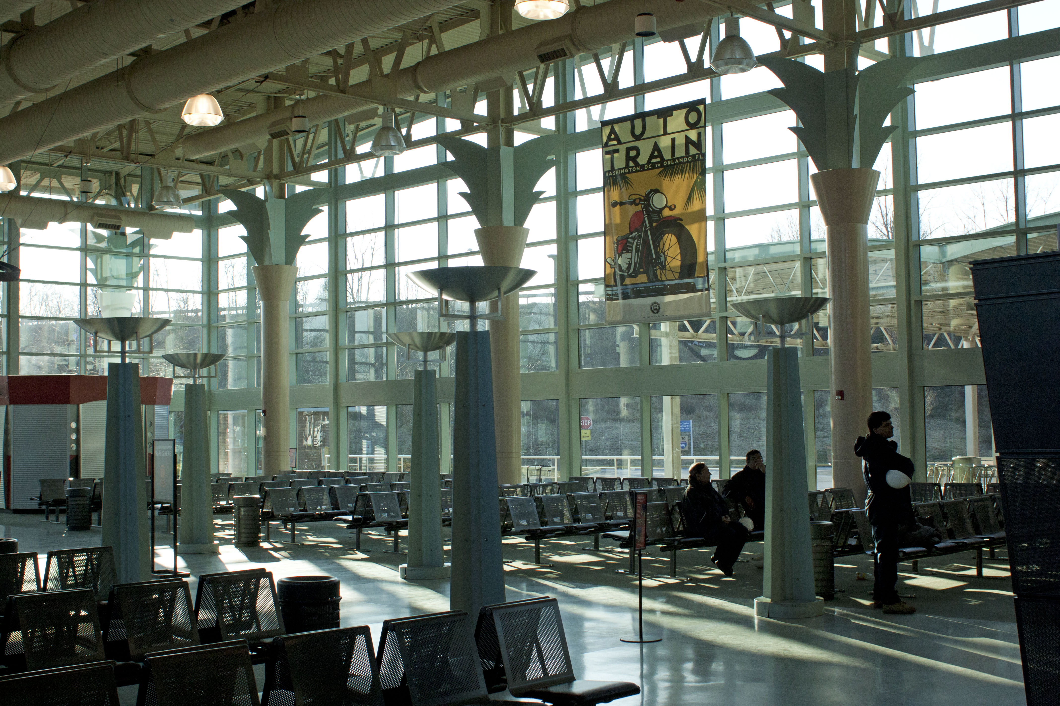 Used exclusively by the Auto Train